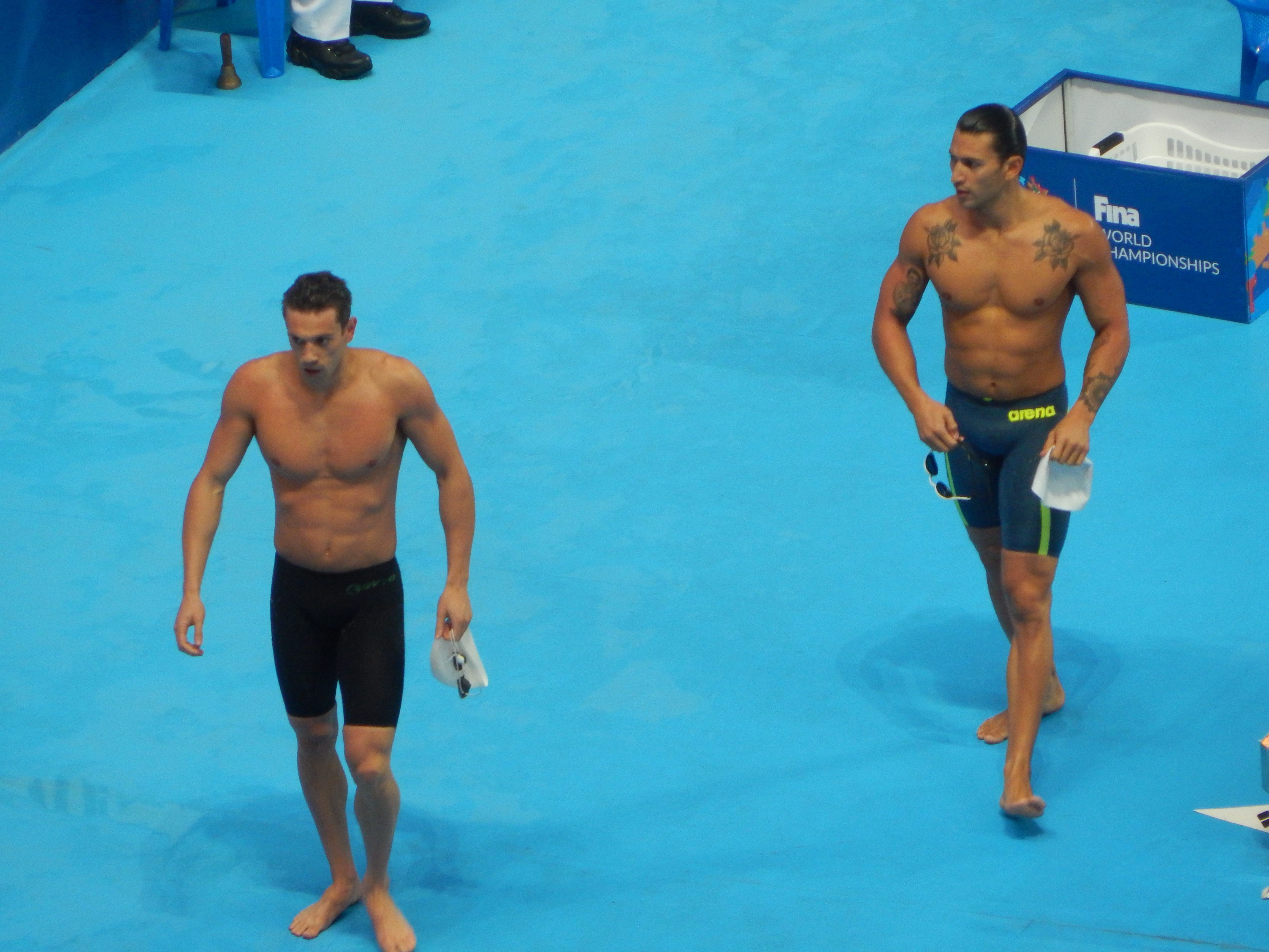 Čaba Silađi and Giacomo Perez-Dortona after 50m breast semi in Kazan